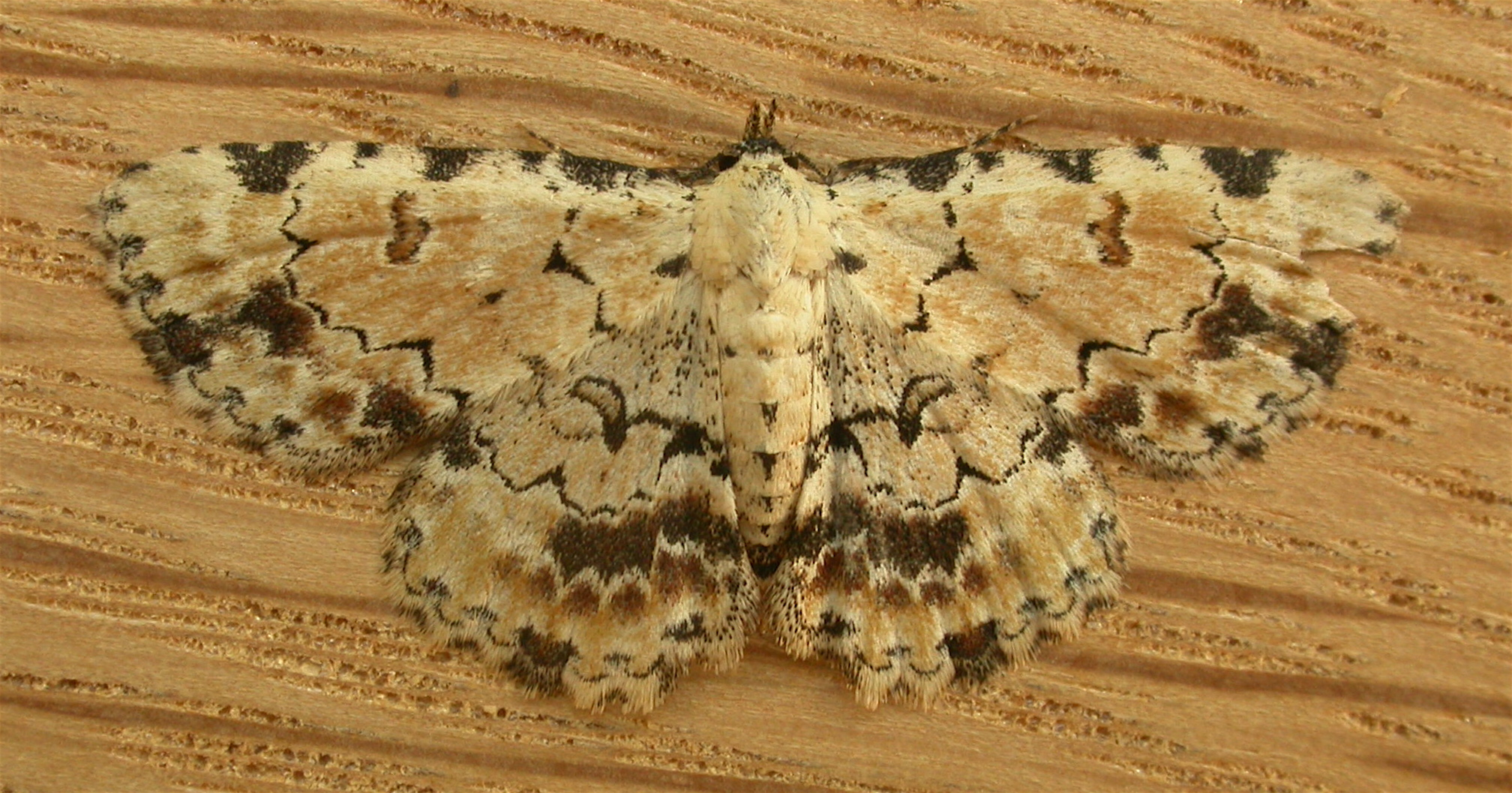 Sandava scitisignata (Walker, 1862), to MV light, Aranda, ACT, 27 September 2008